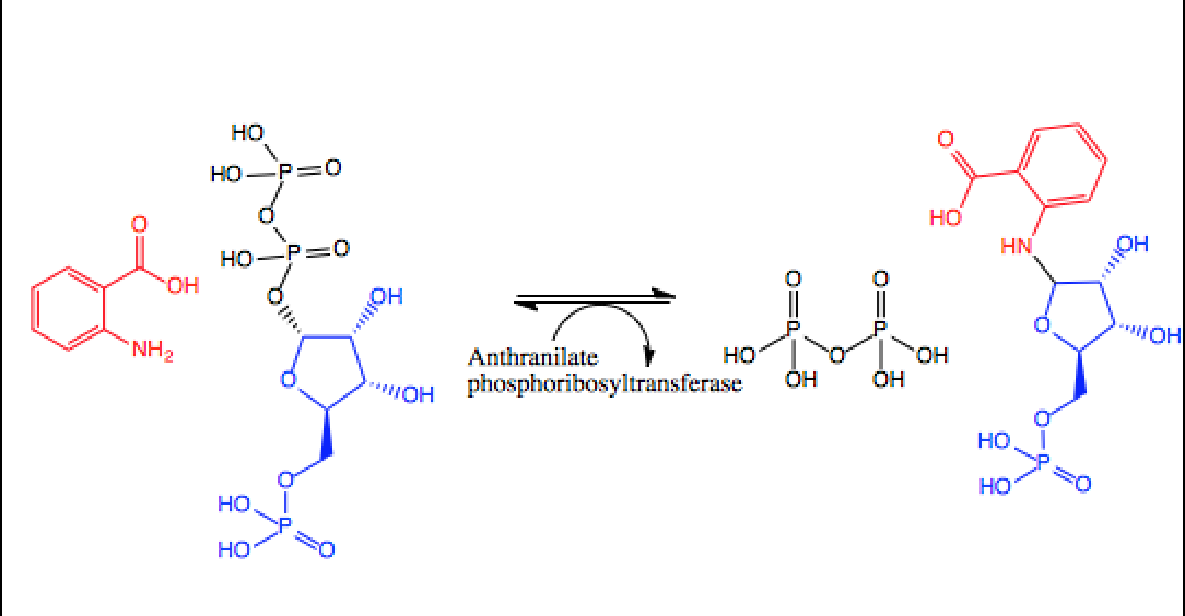 Reaction of AnPRT in the organism